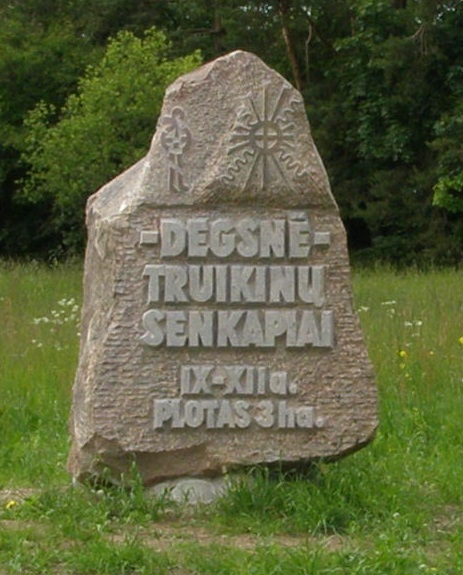 Klaišiai-Truikinai cemetery, Skuodas district, Lithuania